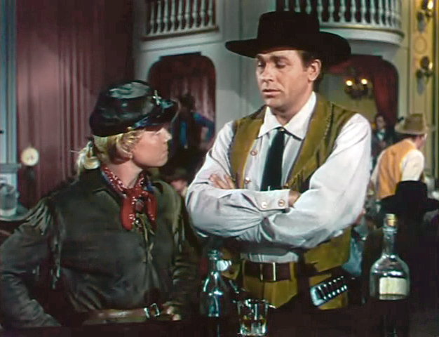 Cropped screenshot of Doris Day and Howard Keel from the trailer for the film Calamity Jane